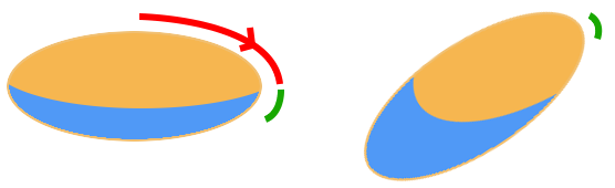 Diagram showing the two steps of testing for shifting dullness. Step 1. Percuss along the abdomen away form the midline (following the red line) until it produces a dull note (green section) Marking this area with your finger. Step 2. Roll the patient towards you wait enough time for any free fluid (blue in diagram) to move and now percussion should result in a resonant note. To finish of return patient to supine position and confirm position is now dull.